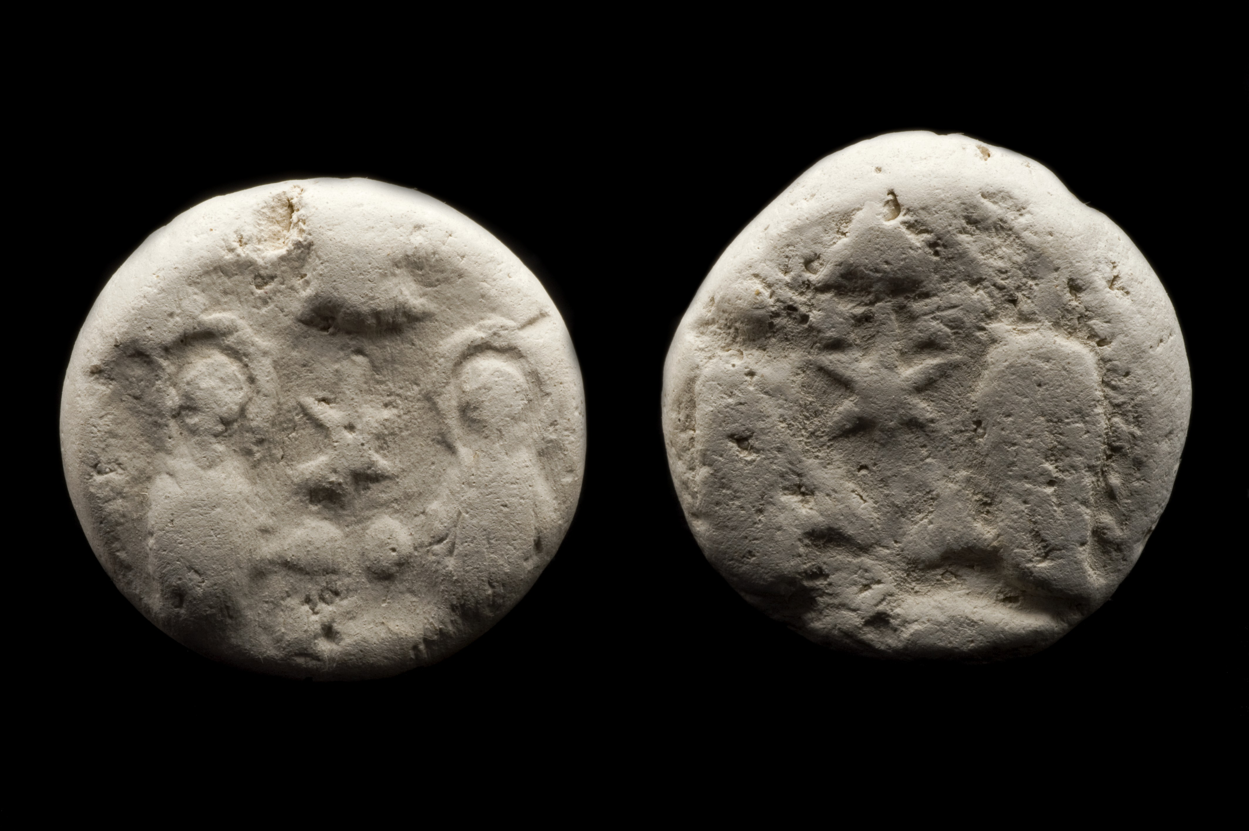 This tablet of white chalky earth from the Milk Grotto in the holy city of Bethlehem was intended to be eaten. The eating of earth sounds unusual but is by no means uncommon and has a long history. Sometimes eaten in times of desperate famine, earth eating (known as geophagy) is particularly associated with pregnant and nursing women. Pregnancy and lactation require a higher nutritional intake. In areas where the diet is traditionally poor, cravings for additional nutrition can be assisted by eating clay tablets, which can contain a range of essential elements such as potassium, zinc and magnesium. That this clay was said to come from the site where Christians believe the Virgin Mary stopped to breastfeed Jesus as they fled to Egypt would have given it a special significance. It may well have been brought back from a religious pilgrimage. The earth is shown here with a similar example (A669205). maker: Unknown maker Place made: Bethlehem, West Bank, Israel Wellcome Images Keywords: pilgrimage; terra sigillata; Breast Feeding